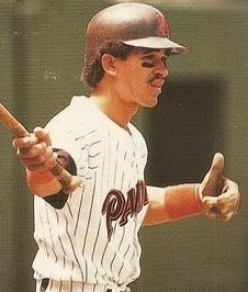 Image cropped from a baseball card of Benito Santiago from the 1987 Press Box Collector's Choices of the 1980's set.